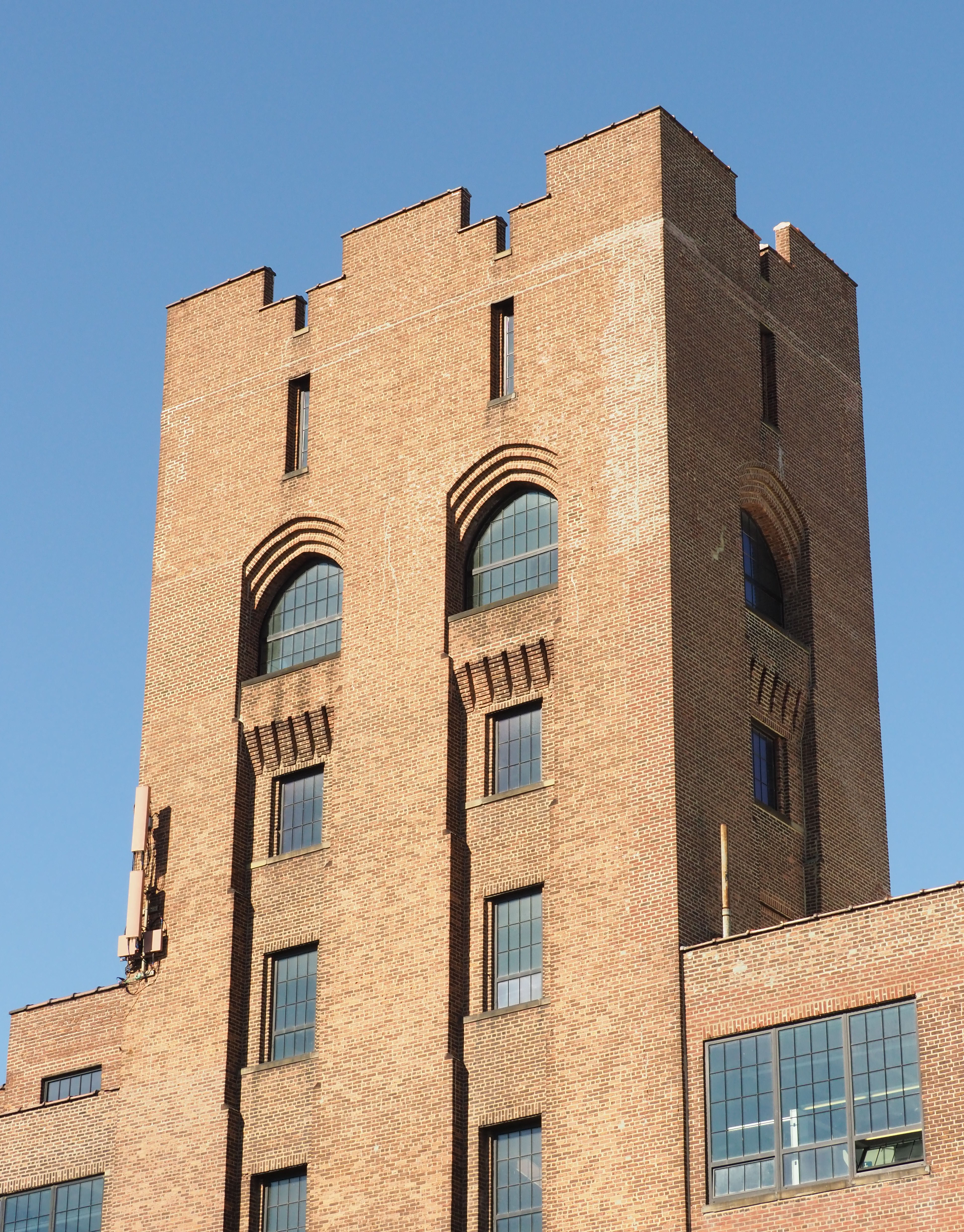 Detail of the tower of the American Bank Note Company printing plant at 1201 Lafayette Ave, Bronx, NY.